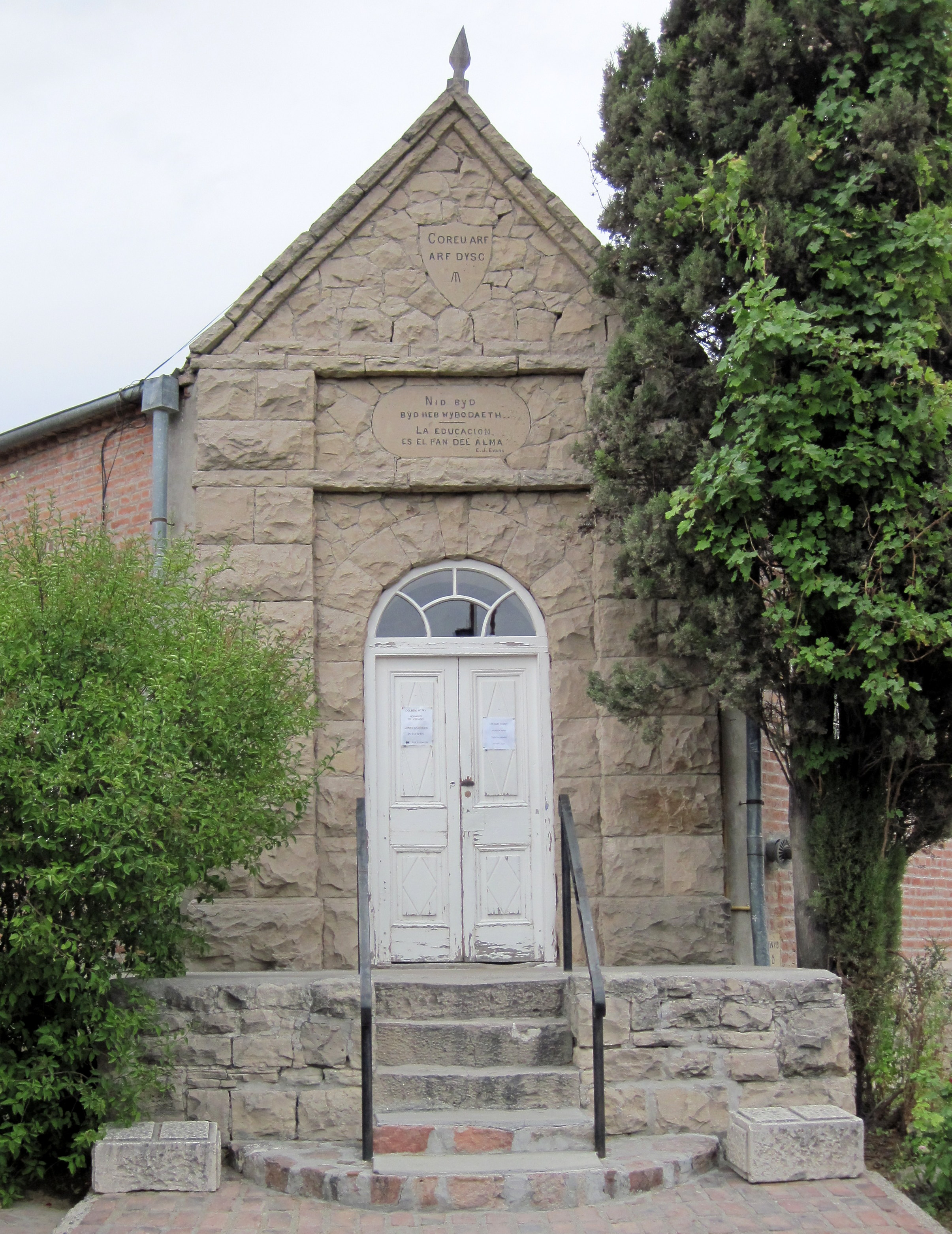 An old Welsh school in Gaiman, Argentina